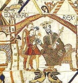 Edward the Confessor, King of England 1042-1066, opening scene of Bayeux Tapestry